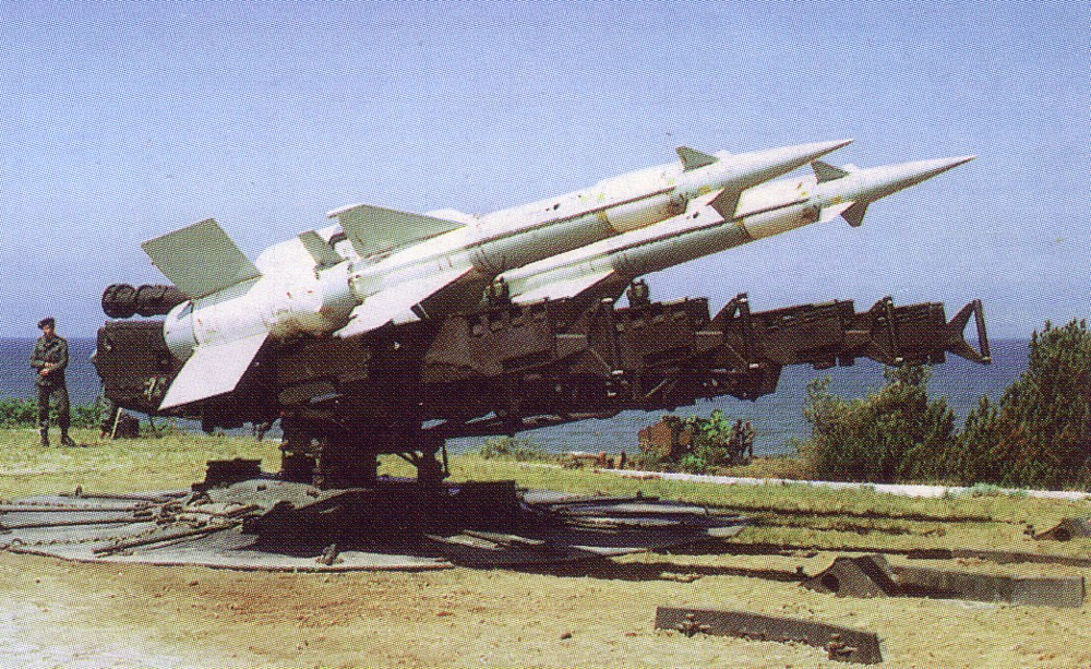 S-125